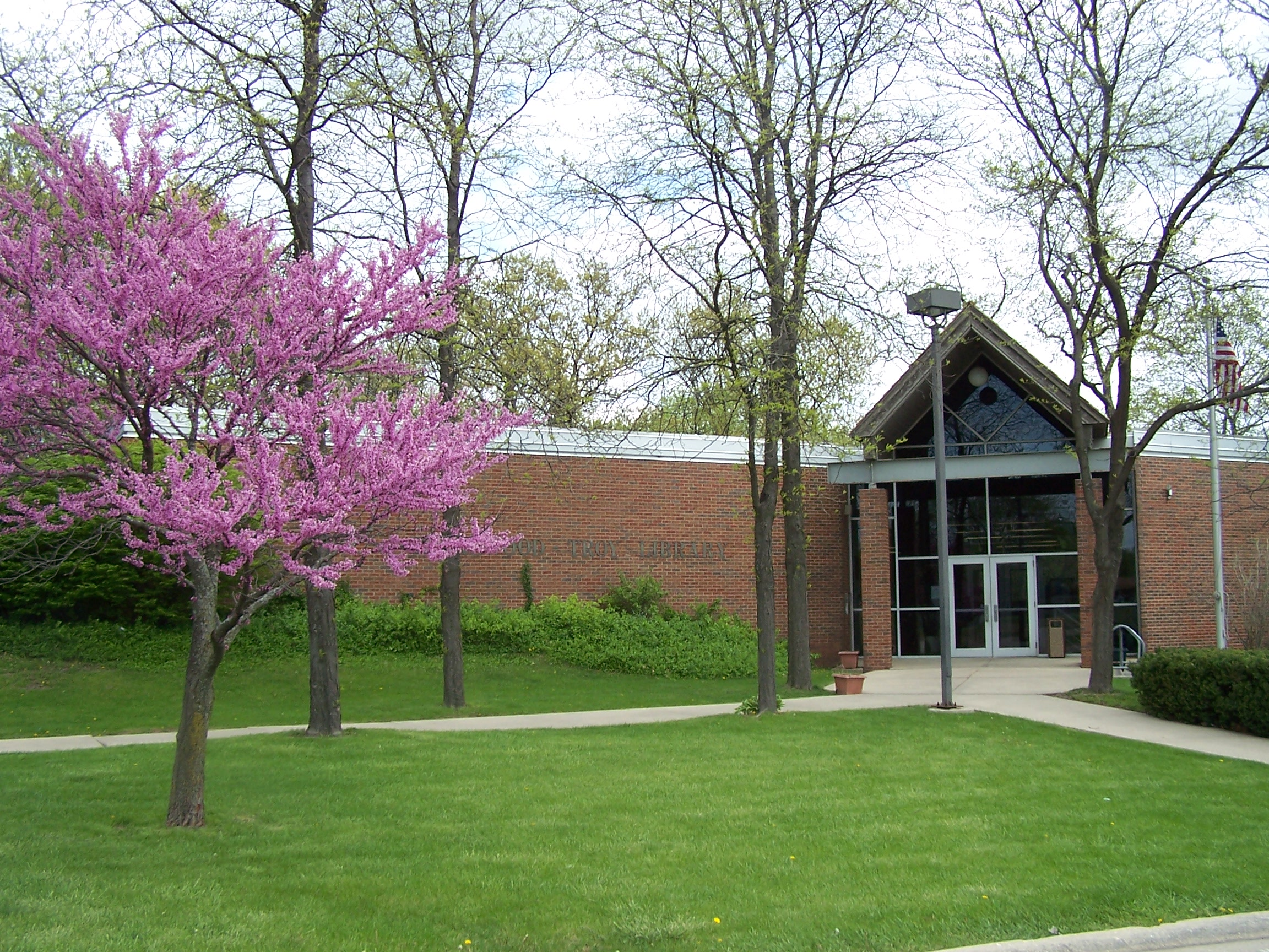 Shorewood-Troy Public Library, Shorewood, Illinois. At the left, some kind of redbud tree in bloom.